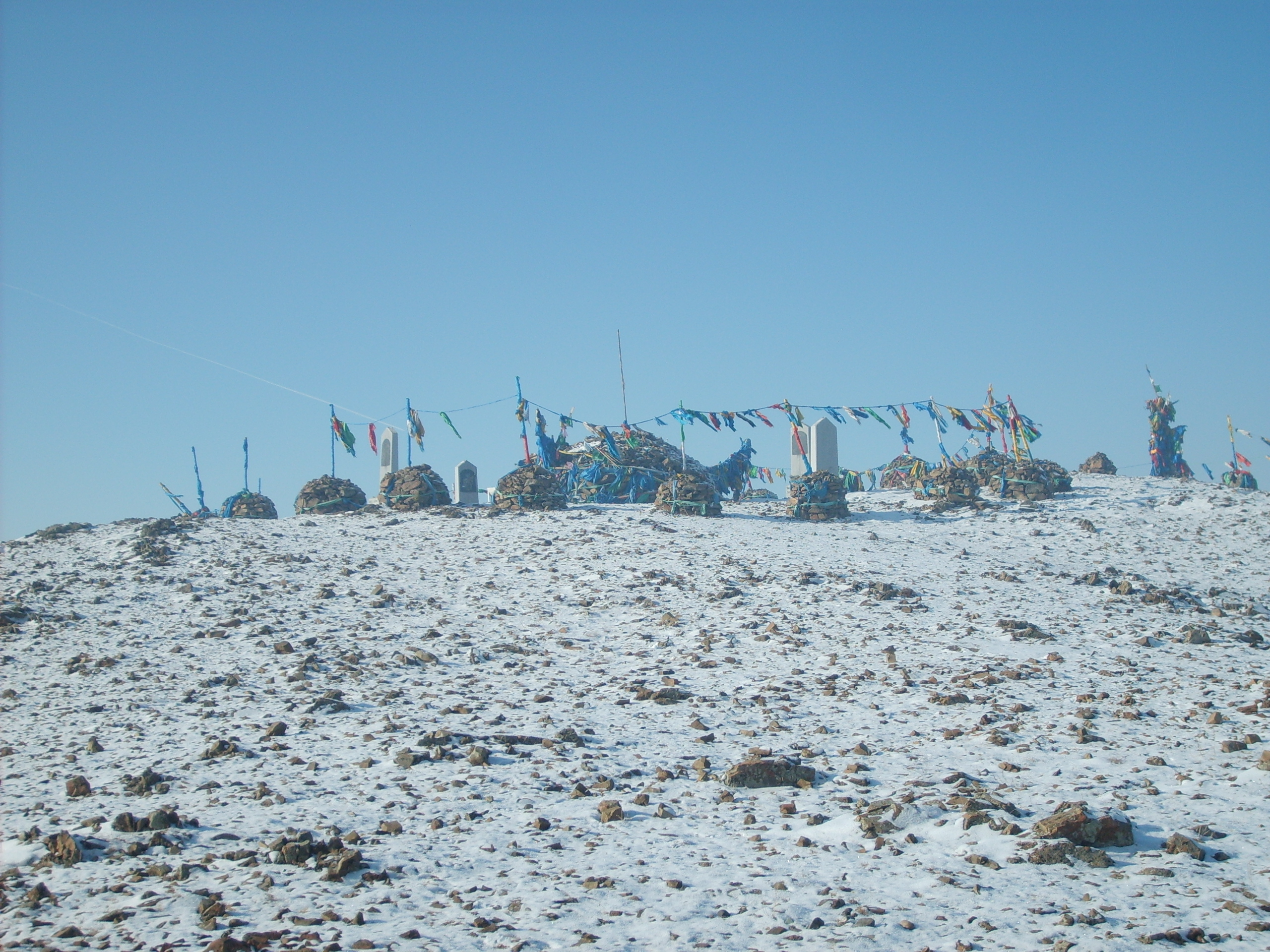 Mongol shamanic temple on Chingeltei Uul, near Ulan Bator.